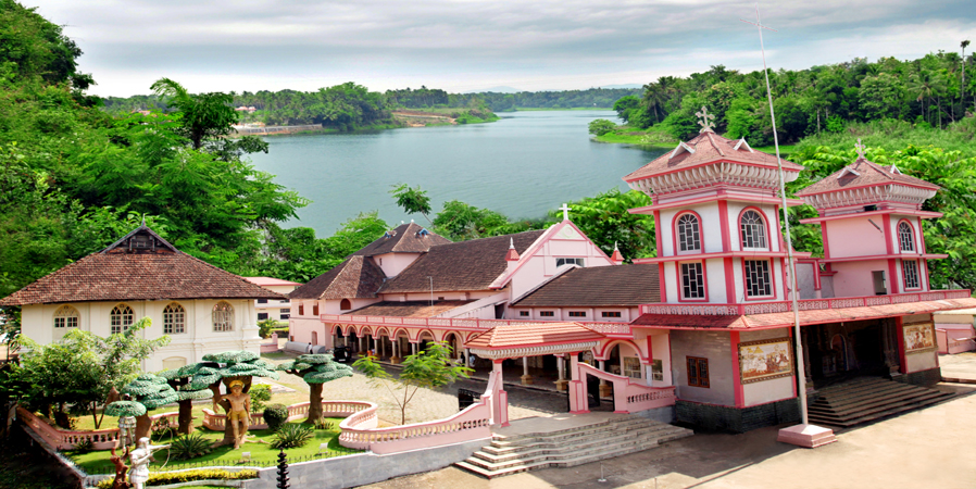 St.Mary's Forane Church , Kanjoor